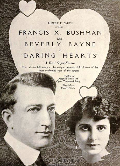 Ad for the American film Daring Hearts (1919) with Francis X. Bushman and his actress wife Beverly Bayne, on page 1177 of the August 9, 1919 Motion Picture News.